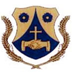 Coat of arms of Szalapa, Hungary